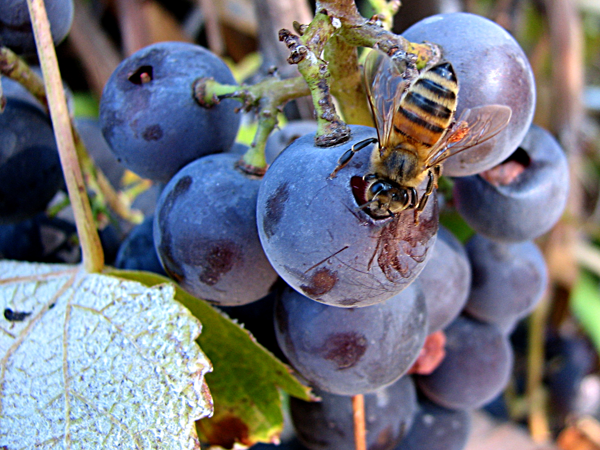 A bee attracted to a grape cluster